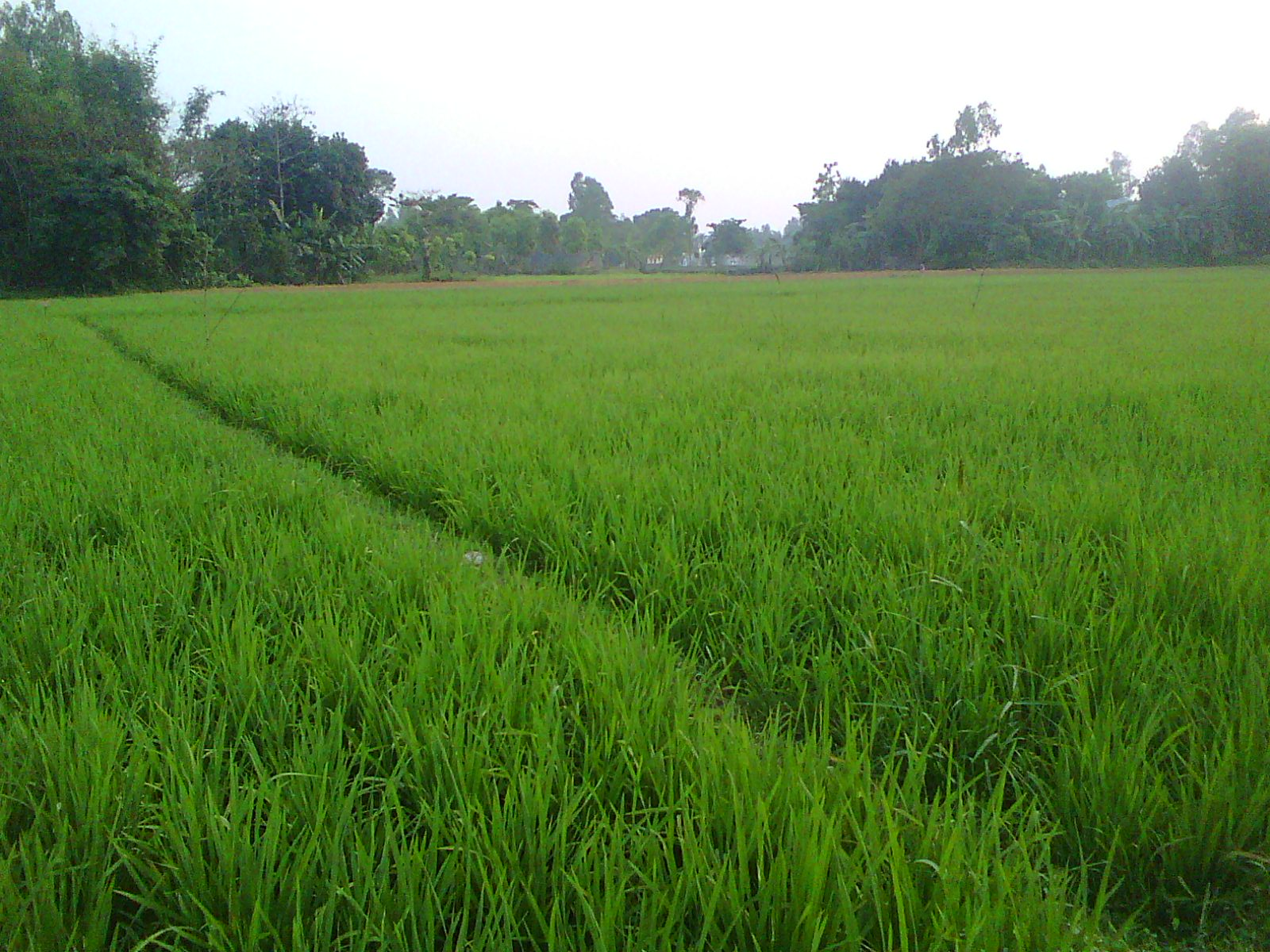 Green rice plant.